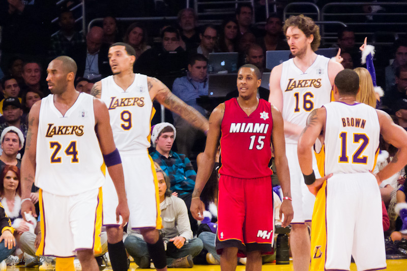 Kobe Bryant, Matt Barnes, Mario Chalmers, Pau Gasol, and Shannon Brown at Staples Center on December 25, 2010.